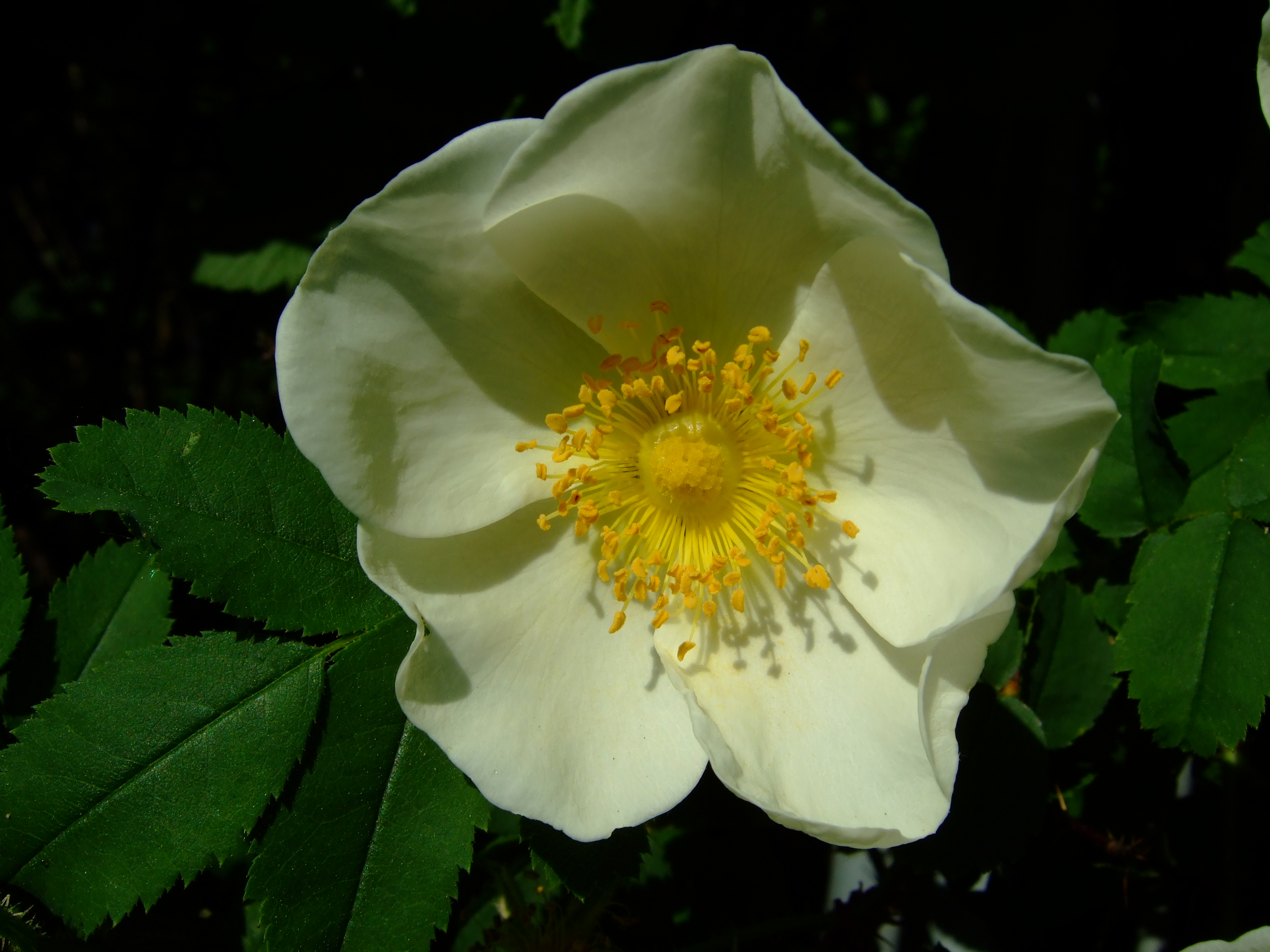 Burnet Rose in Bahrenfeld, Hamburg.